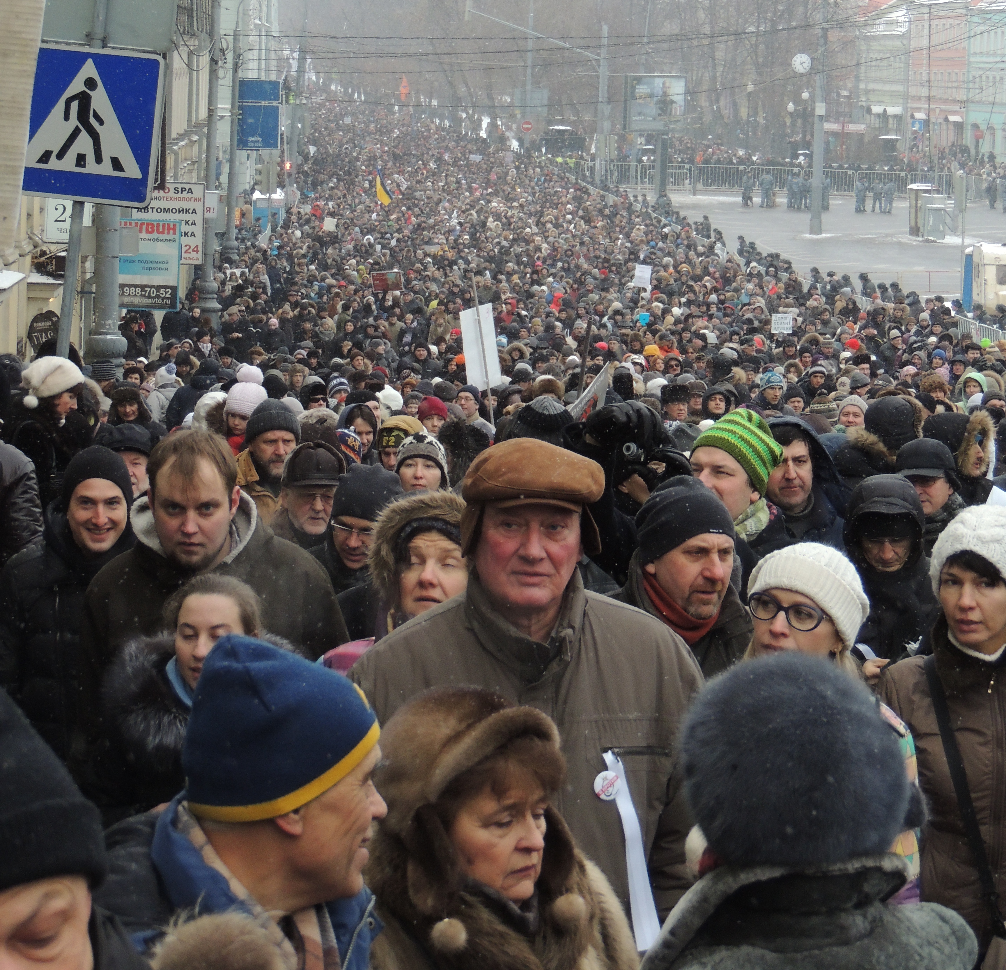 Opposition rally at Moscow 2013-01-13, Trubnaya Square